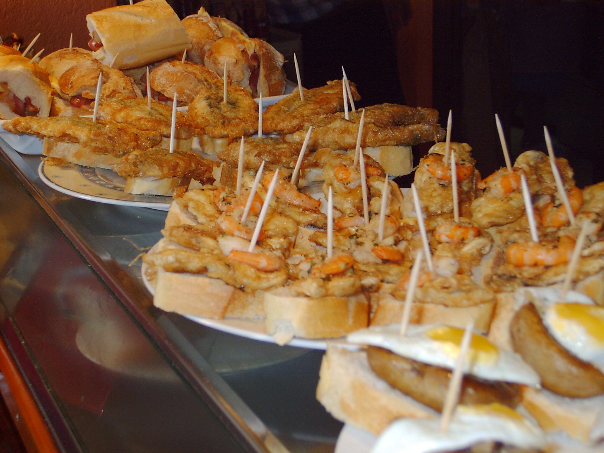 Pinchos of Bermeo´s old port